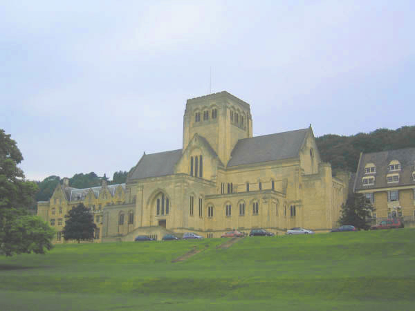 Picture taken by the provider ie. Myself.